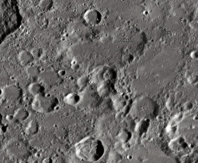 Poisson lunar crater as seen from Earth with satellite craters labeled